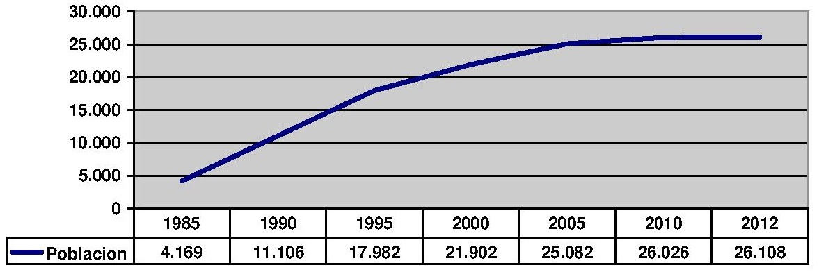 sadrty